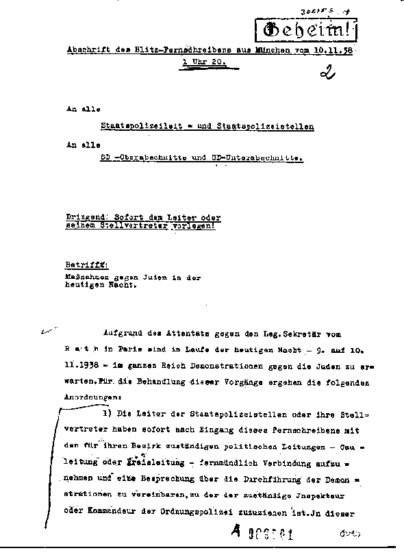 This is a telegram signed by Reinhard Heyrich to various offices of the nazi Security Service (SD), coordinating Kristallnacht with the police and the nazi party. Page 1 of 4. Next Page This is from an online exhibit, with a translation, at the US Holocaust Memorial Museum, at This file is in the public domain, because US Government National Archives, captured nazi document In case this is not legally possible: The right to use this work is granted to anyone for any purpose, without any conditions, unless such conditions are required by law. Please verify that the reason given above complies with Commons' licensing policy. This work is in the public domain in its country of origin and other countries and areas where the copyright term is the author's life plus 70 years or fewer. You must also include a United States public domain tag to indicate why this work is in the public domain in the United States. Note that a few countries have copyright terms longer than 70 years: Mexico has 100 years, Jamaica has 95 years, Colombia has 80 years, and Guatemala and Samoa have 75 years. This image may not be in the public domain in these countries, which moreover do not implement the rule of the shorter term. Côte d'Ivoire has a general copyright term of 99 years and Honduras has 75 years, but they do implement the rule of the shorter term. Copyright may extend on works created by French who died for France in World War II (more information), Russians who served in the Eastern Front of World War II (known as the Great Patriotic War in Russia) and posthumously rehabilitated victims of Soviet repressions (more information). This file has been identified as being free of known restrictions under copyright law, including all related and neighboring rights.